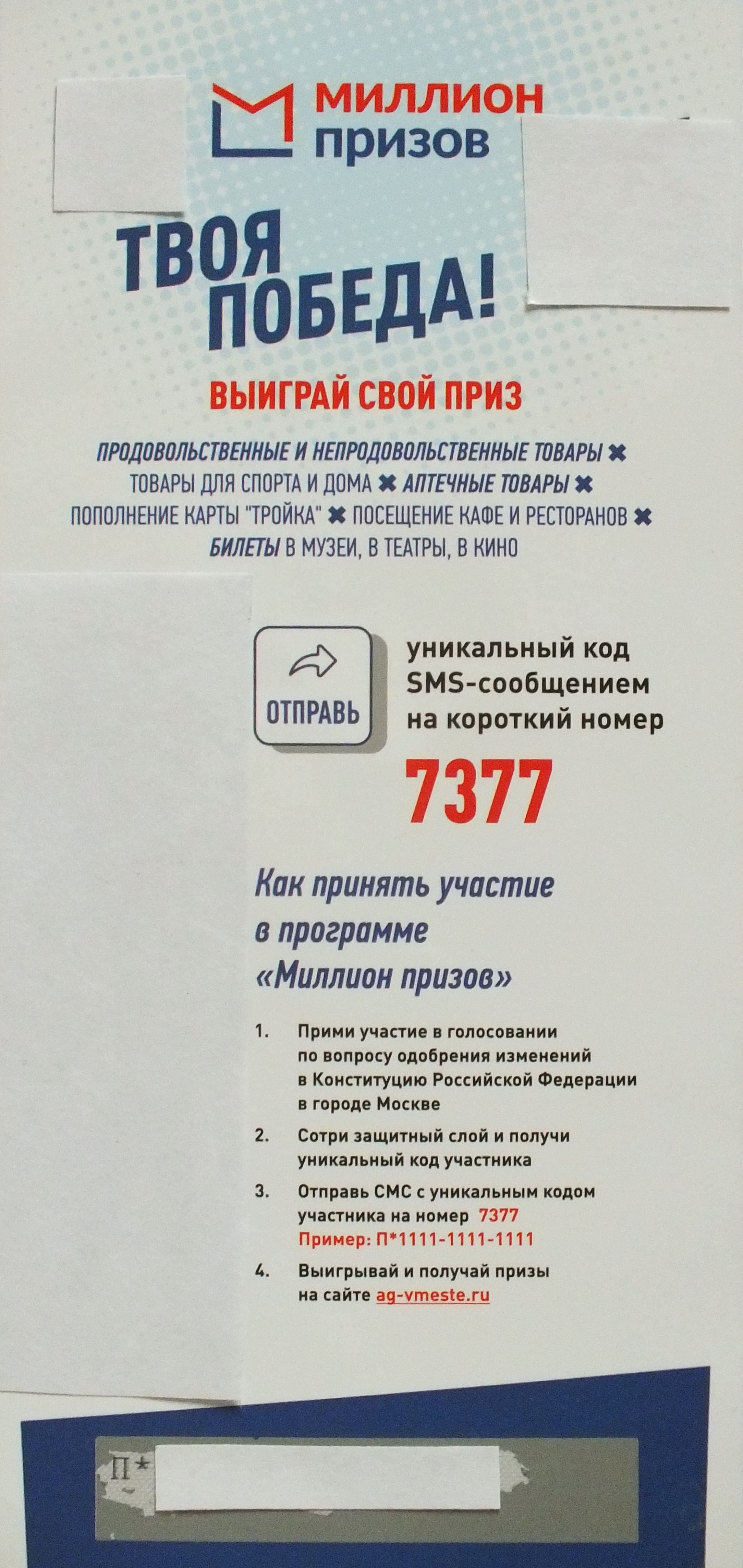 Instruction in Russian how to participate in the "Million Prizes" program. This program was intended for residents of Moscow and was designed to stimulate participation in the elections. The intruction was given after particiaption in 2020 Russian constitutional referendum and gave the opportunity to win reward points that can be spent on food and non-food products, pharmacy products, replenishing the Troika card, tickets to establishments, visiting restaurants/cafes.